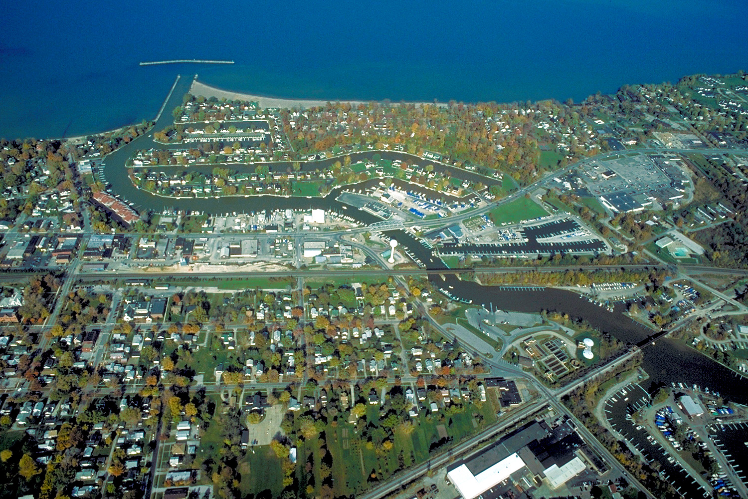 Aerial view of Vermilion, Ohio, USA on Lake Erie, near Sandusky, Ohio. The major highway U.S. Route 6 (Liberty Avenue) can be seen running west-east.